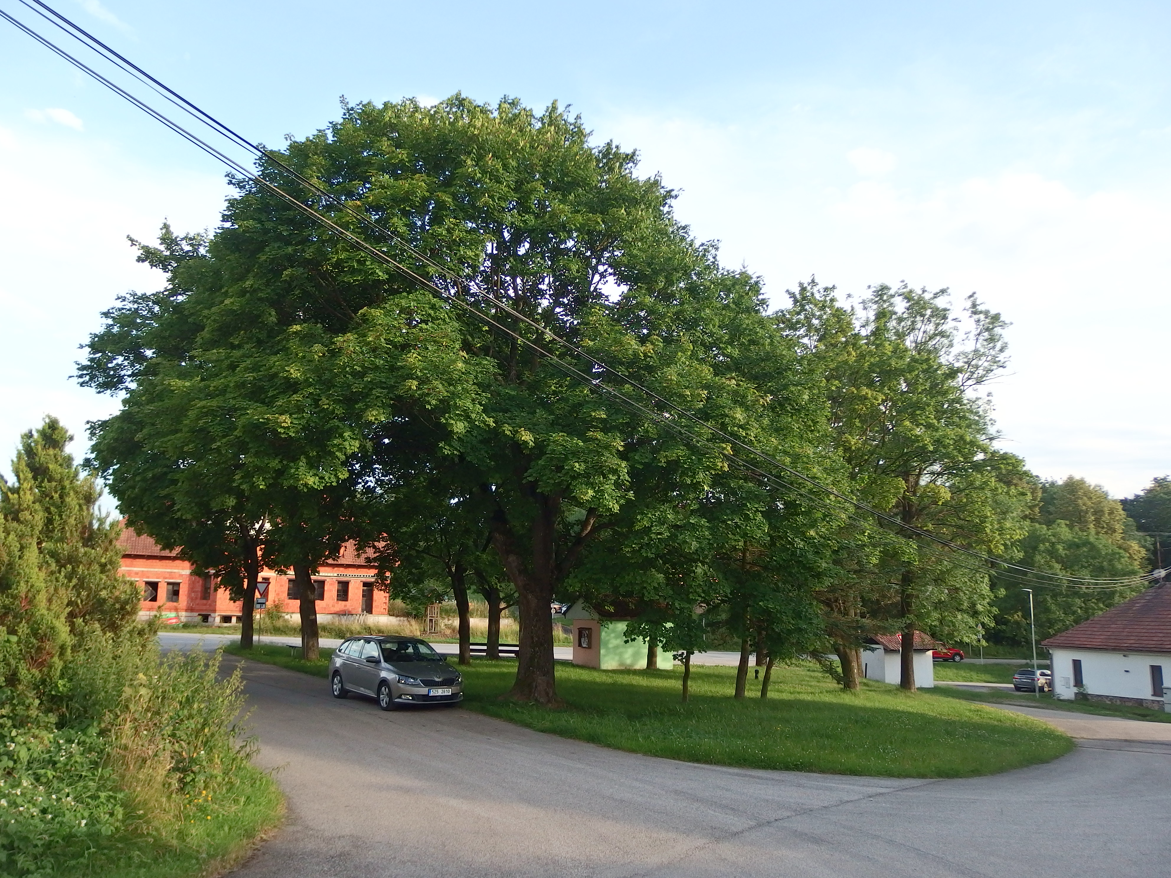 Mirkovice, Český Krumlov District, Czechia, part Chabičovice.